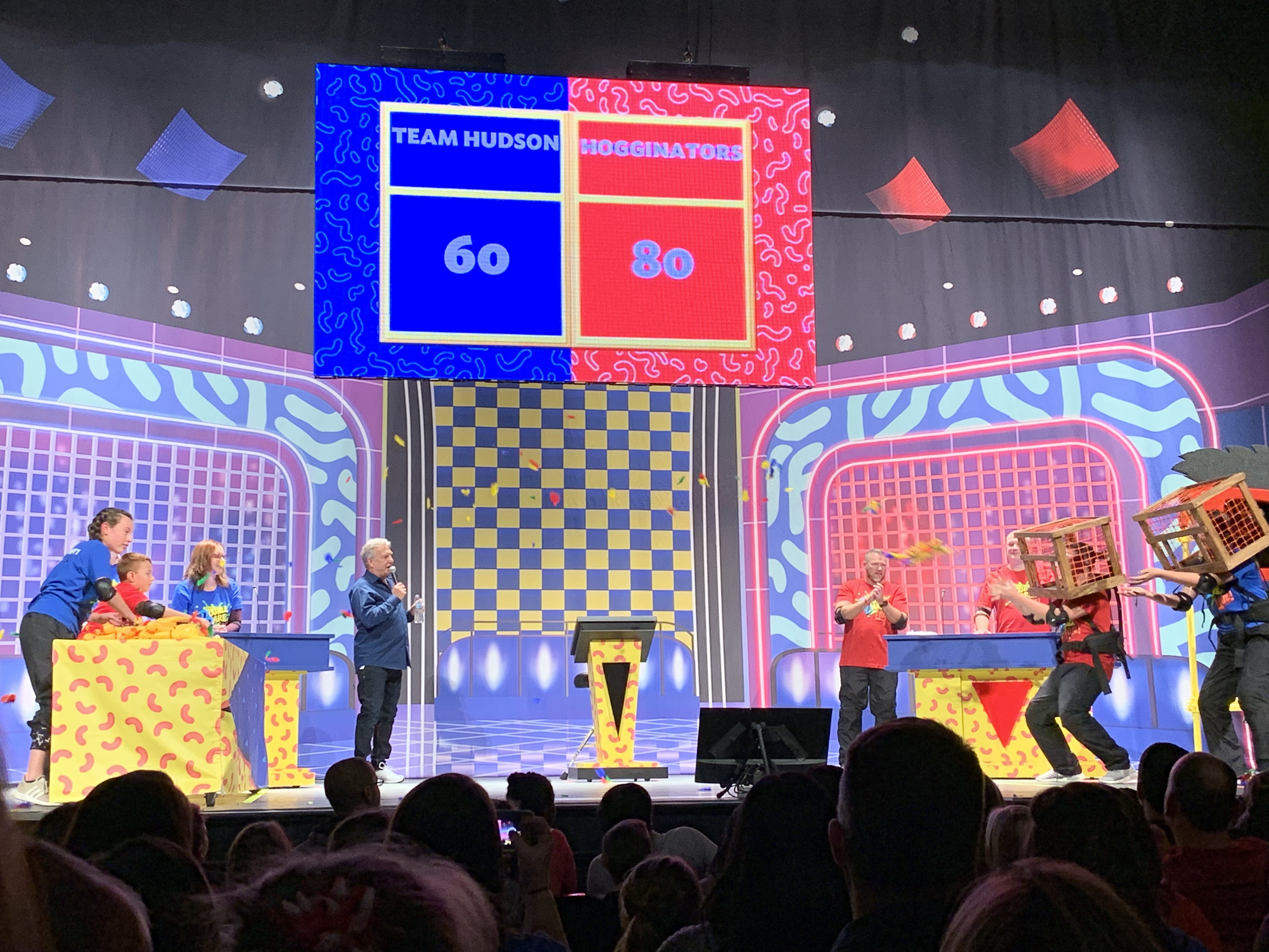 Marc Summers hosts a physical challenge during the Double Dare Live tour at KeyBank State Theater in Cleveland, Ohio on November 11, 2018.